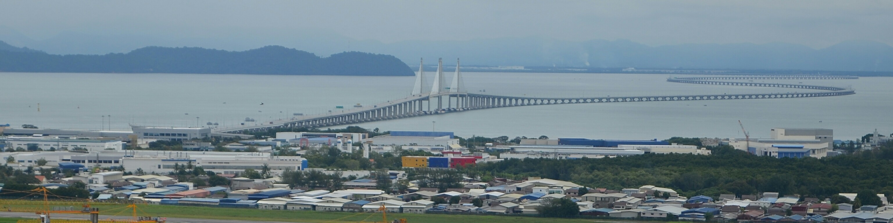 Panoramic aerial view of Penang second bridge in January 2017.